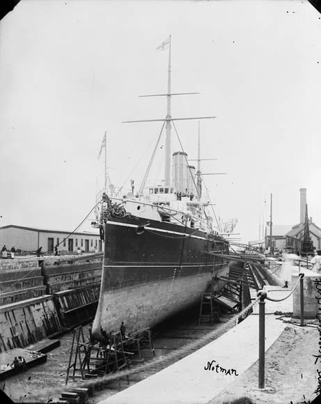 Photograph of British Edgar class cruiser HMS Crescent (1892) in drydock at Halifax, Nova Scotia, Canada while flagship of the North America and West Indies Squadron.